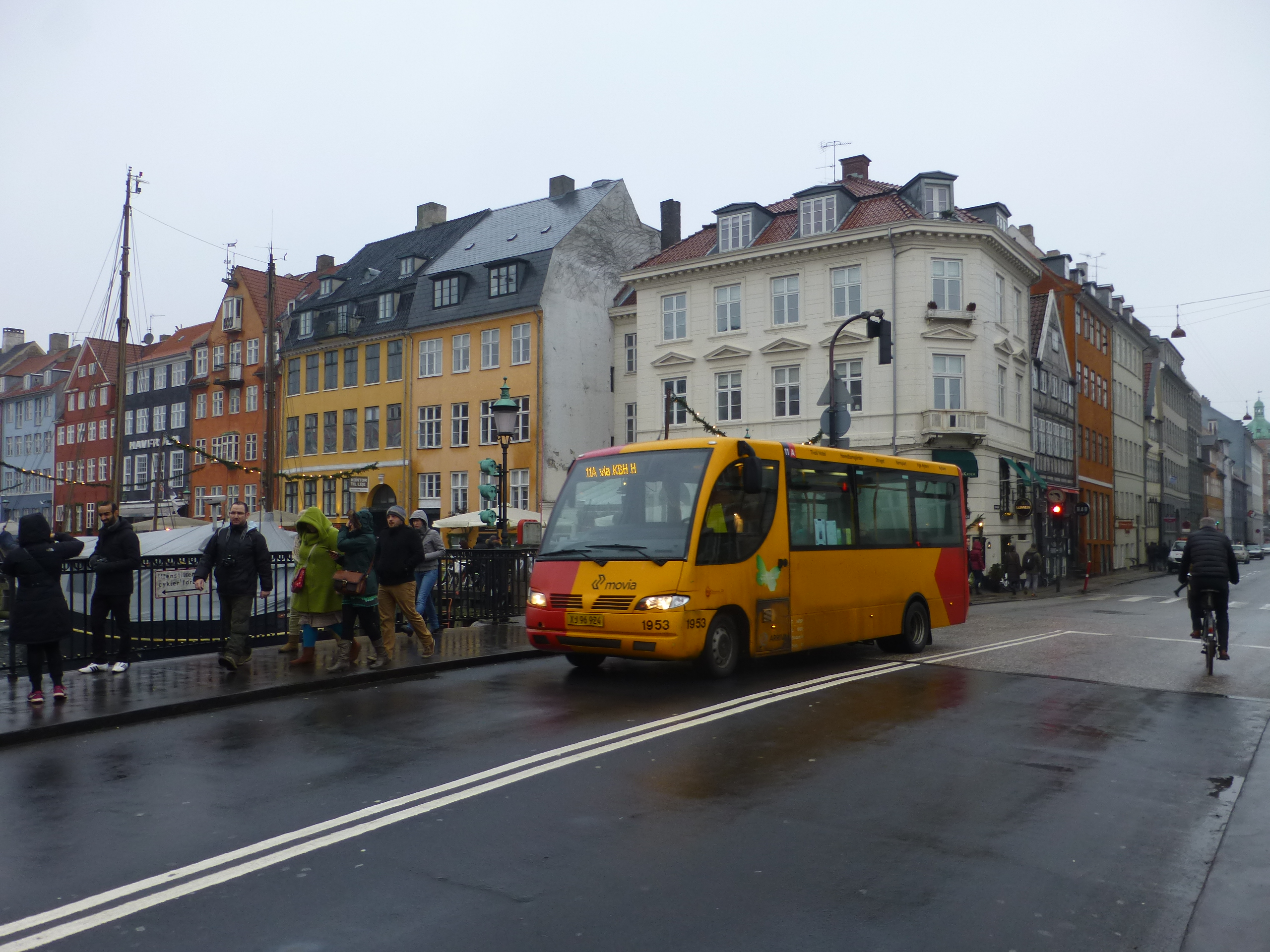 Movia bus line 11A on Nyhavnsbroen in Indre By in Copenhagen on the last day of the line.